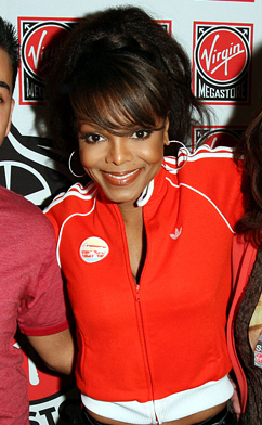 Janet Jackson with the winners of the album's "Design Me" contest at an album signing, Matthew Zeghibe and Teresa Scionti.